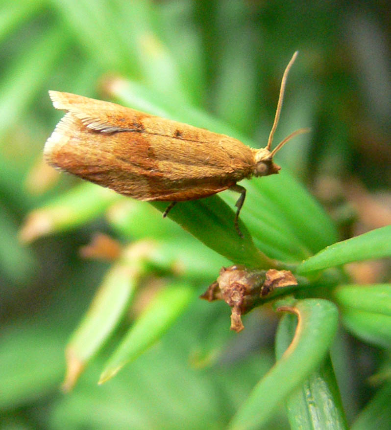 butterfly on Taxus baccata, il Lambersart, near Lille, North of France